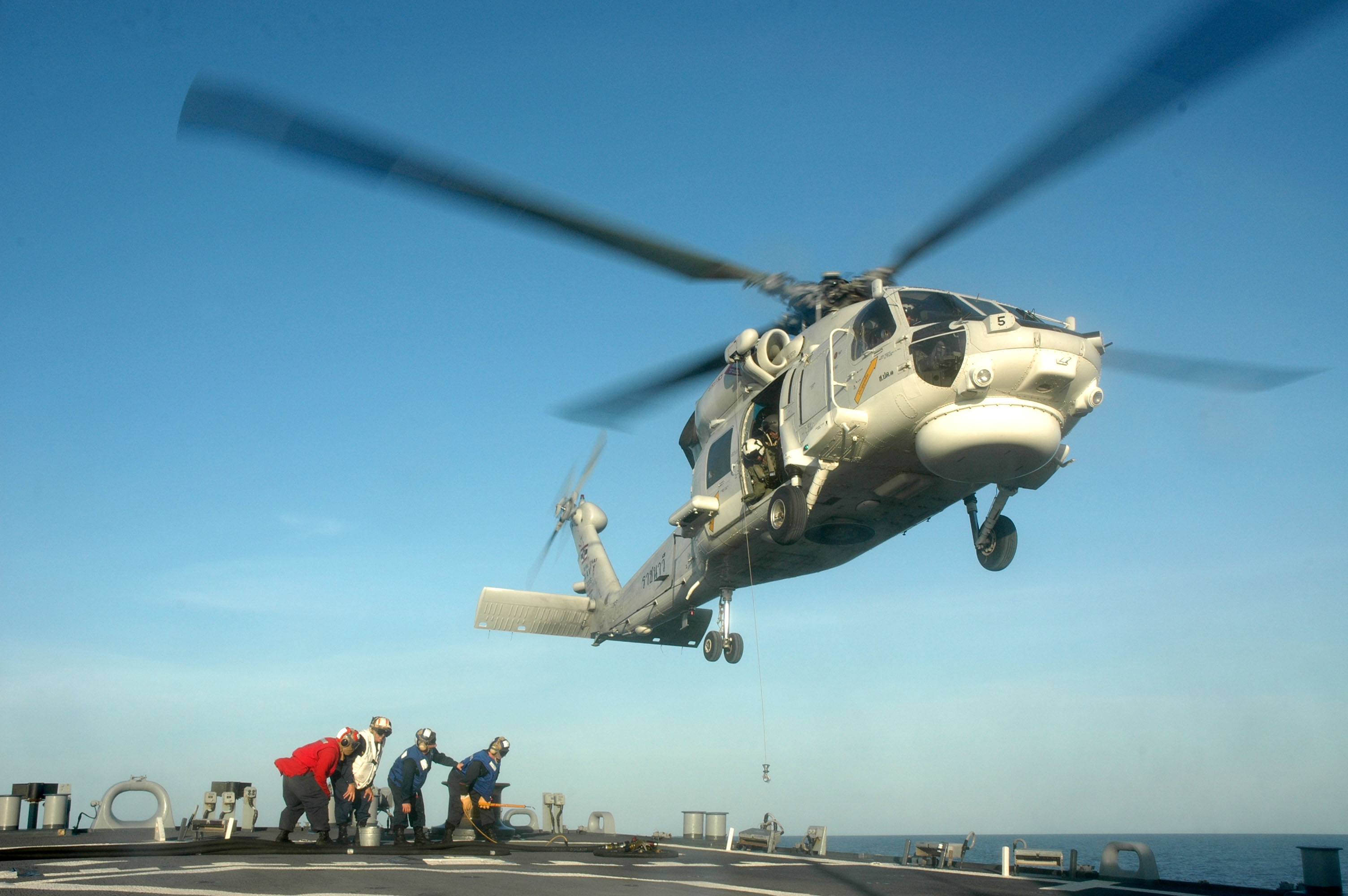 U.S. Sailors with the flight deck crew aboard the guided missile destroyer USS Curtis Wilbur (DDG 54) in the Gulf of Thailand conduct an in-flight refueling simulation with a Thai Navy S-70B Seahawk helicopter assigned to Squadron 02 during the at-sea phase of Cooperation Afloat Readiness and Training (CARAT) 2013 June 8, 2013. CARAT is a series of bilateral exercises held annually in Southeast Asia to strengthen relationships and enhance force readiness.